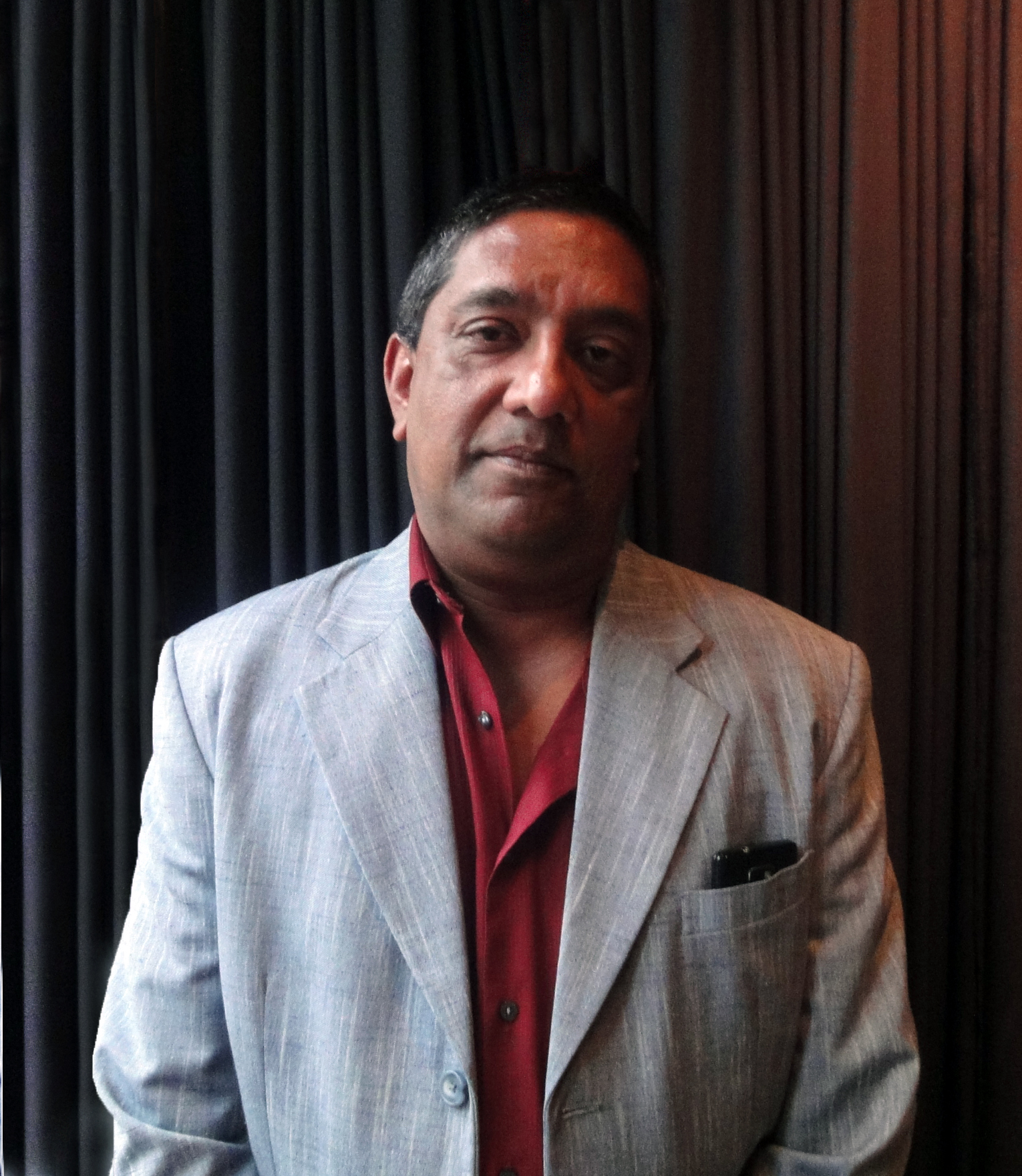 Prem Radhakishun after a recording of an episode of "De Wereld Draait Door" This is a retouched picture, which means that it has been digitally altered from its original version. Modifications: Background simplified, cropped. The original can be viewed here: Prem Radhakishun2.JPG. Modifications made by 1Veertje.